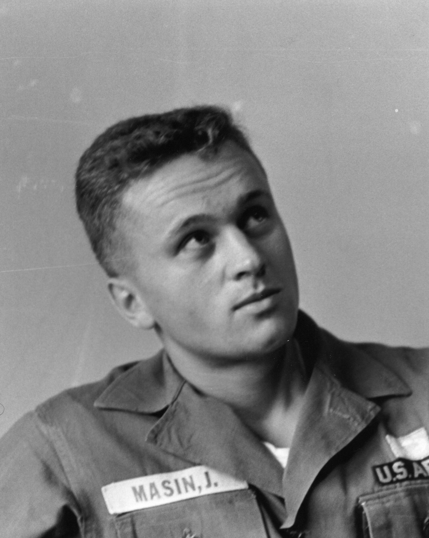 Photo of Josef"Joe" Masin as a soldier of the US Army. Taken around 1955 Photographer unknown Given to me by his daughter Barbara Masin with the kind permission to use it under GNU FDL.